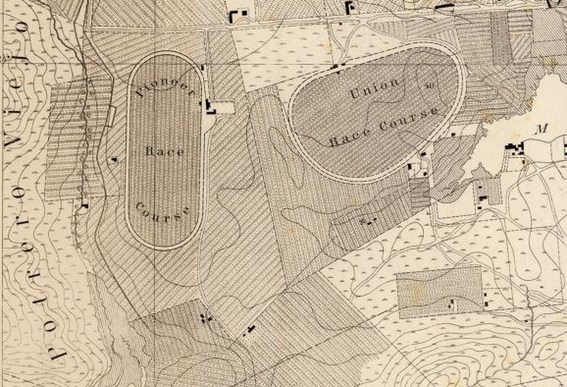 U.S. Coast Survey A.D. Bache, Superintendent. City Of San Francisco And Its Vicinity California. From a plane label survey by A.F. Rogers Sub-assistant. Verified W.R. Palmer Capt. Topl. Engrs. Asst. C.S. In charge of Office. Lith. of J. Bien 60 Fulton St. N.Y. Note that map is oriented with west at the top, instead of north. Complete map available in the David Rumsey Map Collection.